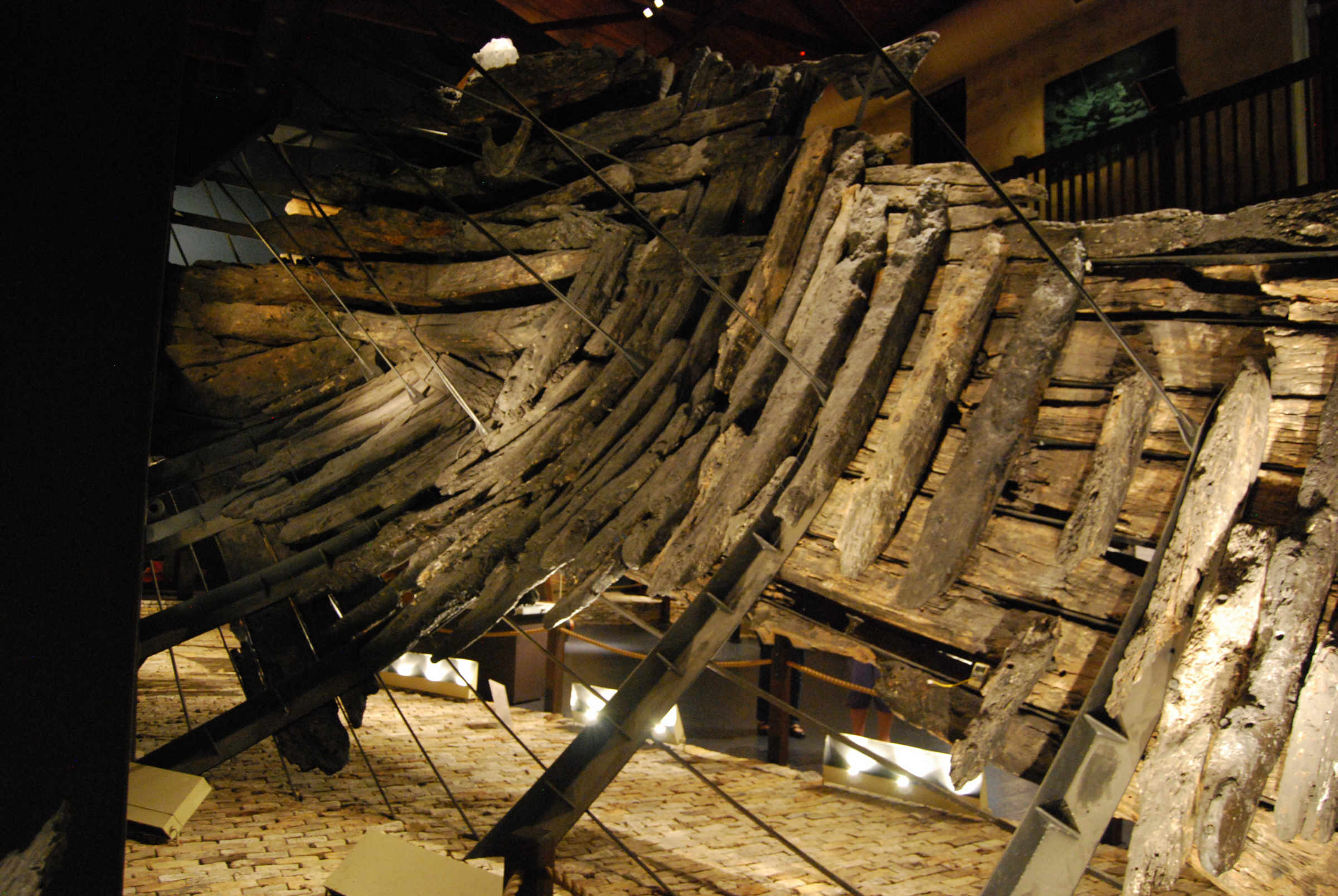 The Batavia shipwreck (1629) stern internal timbers as displayed at Fremantle Shipwreck Museum, Western Australia.